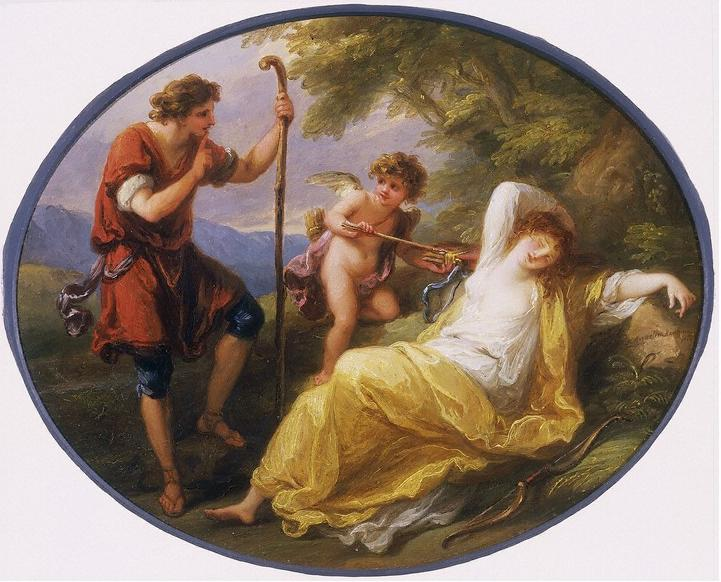 A shepherd watches a sleeping nymph while Cupid places an arrow in her quiver, her bow lying on the ground beside her